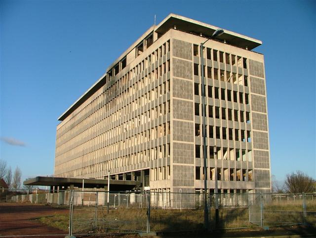 Former ICI Billingham Headquarters Office Block. This building has been empty for at least twelve years and derelict for ten. It has been frequently set alight, the results of the most recent can be seen on the top floors. Apparently the local council are bringing legal action to have the property's owners demolish the building. (Update: The building WAS demolished - in 2012.)